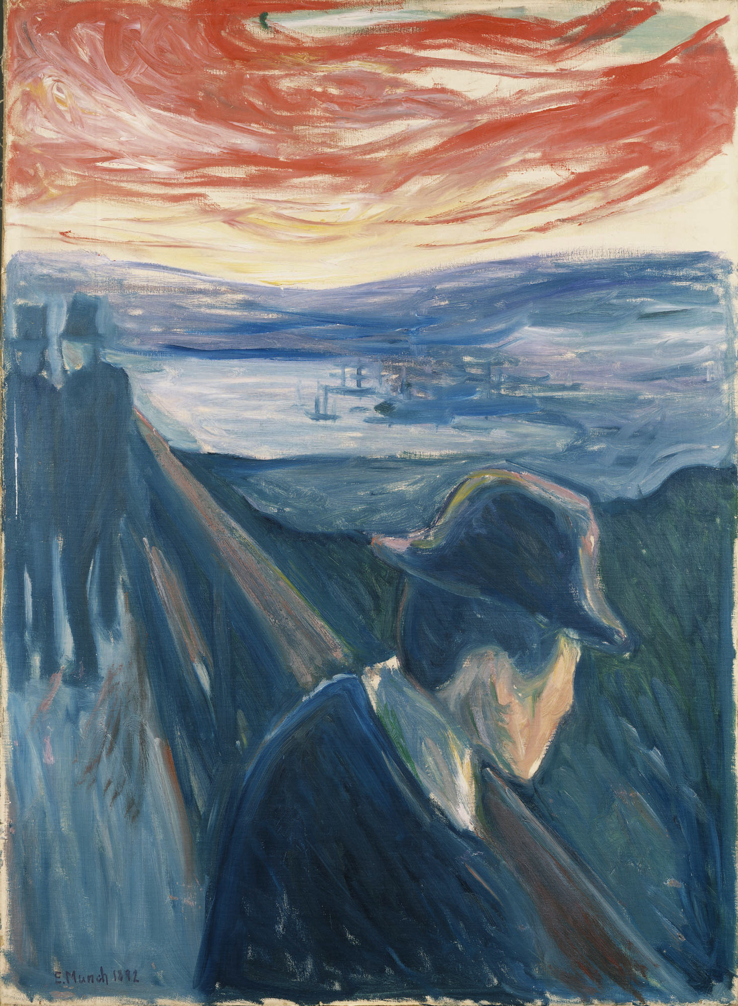 Despair 1892, oil on canvas